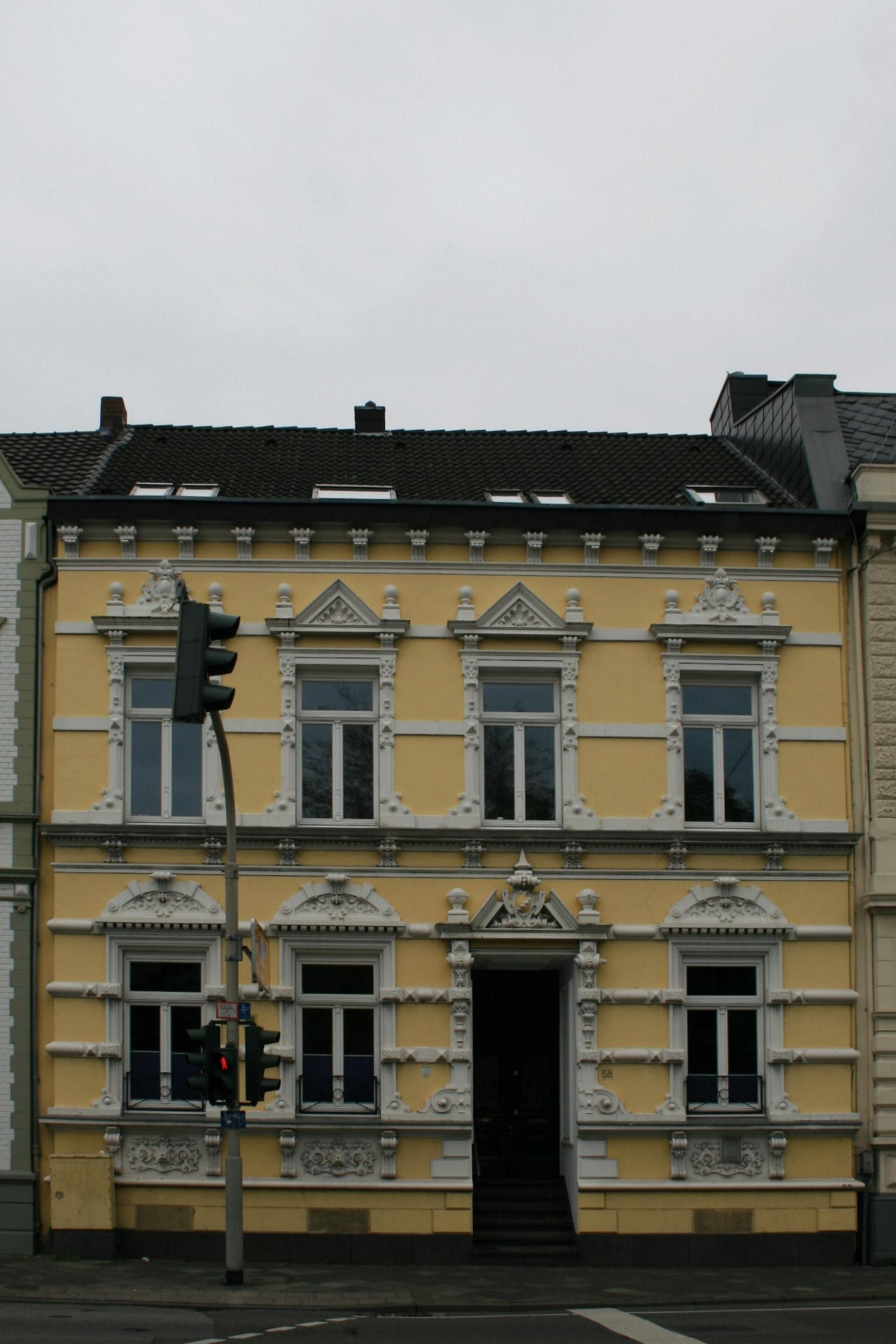 Cultural heritage monument No. V 025 in Mönchengladbach